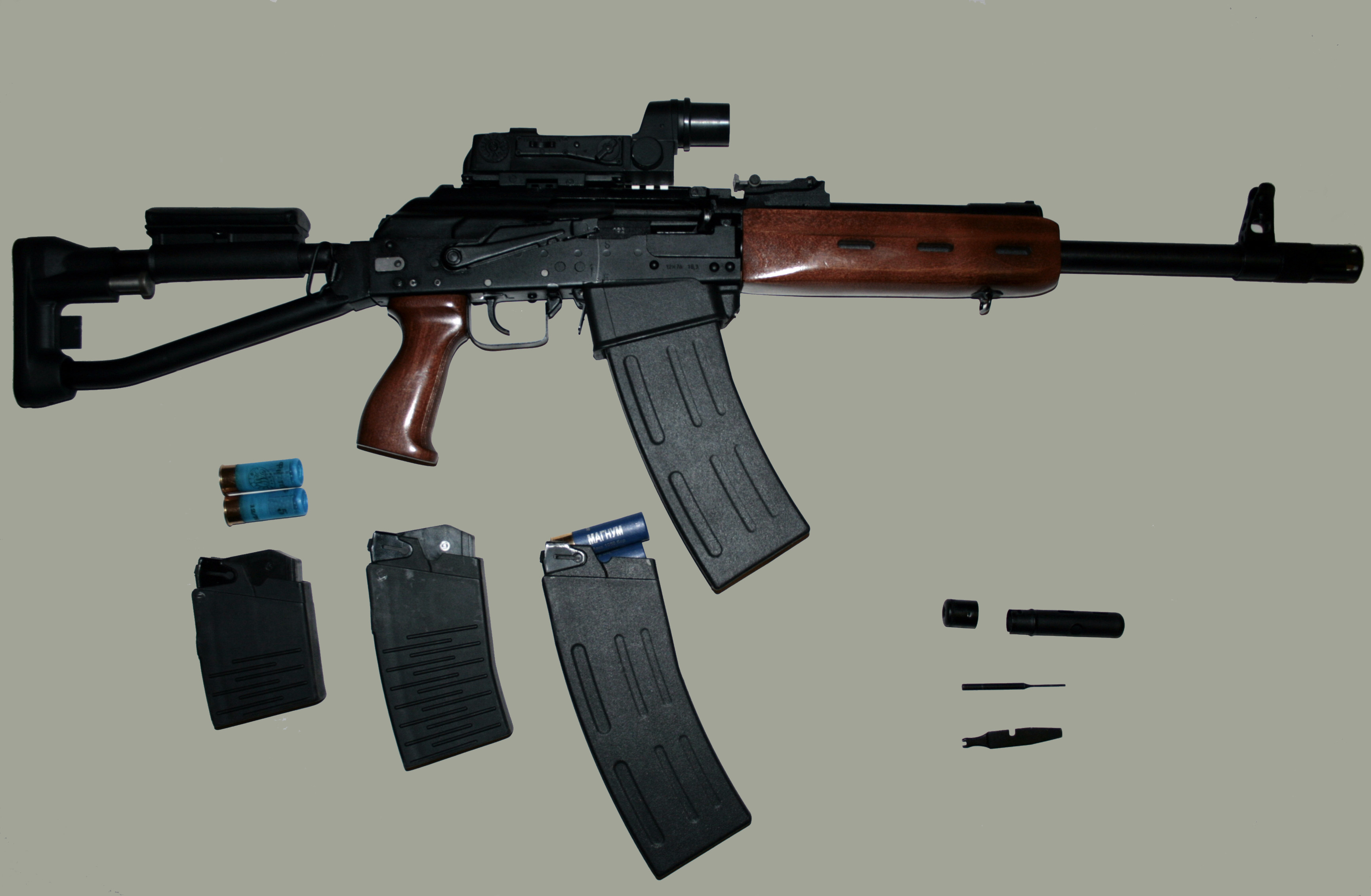 Saiga 12 cal shotgun short version mod. 040-02 with collimator sight "Cobra"